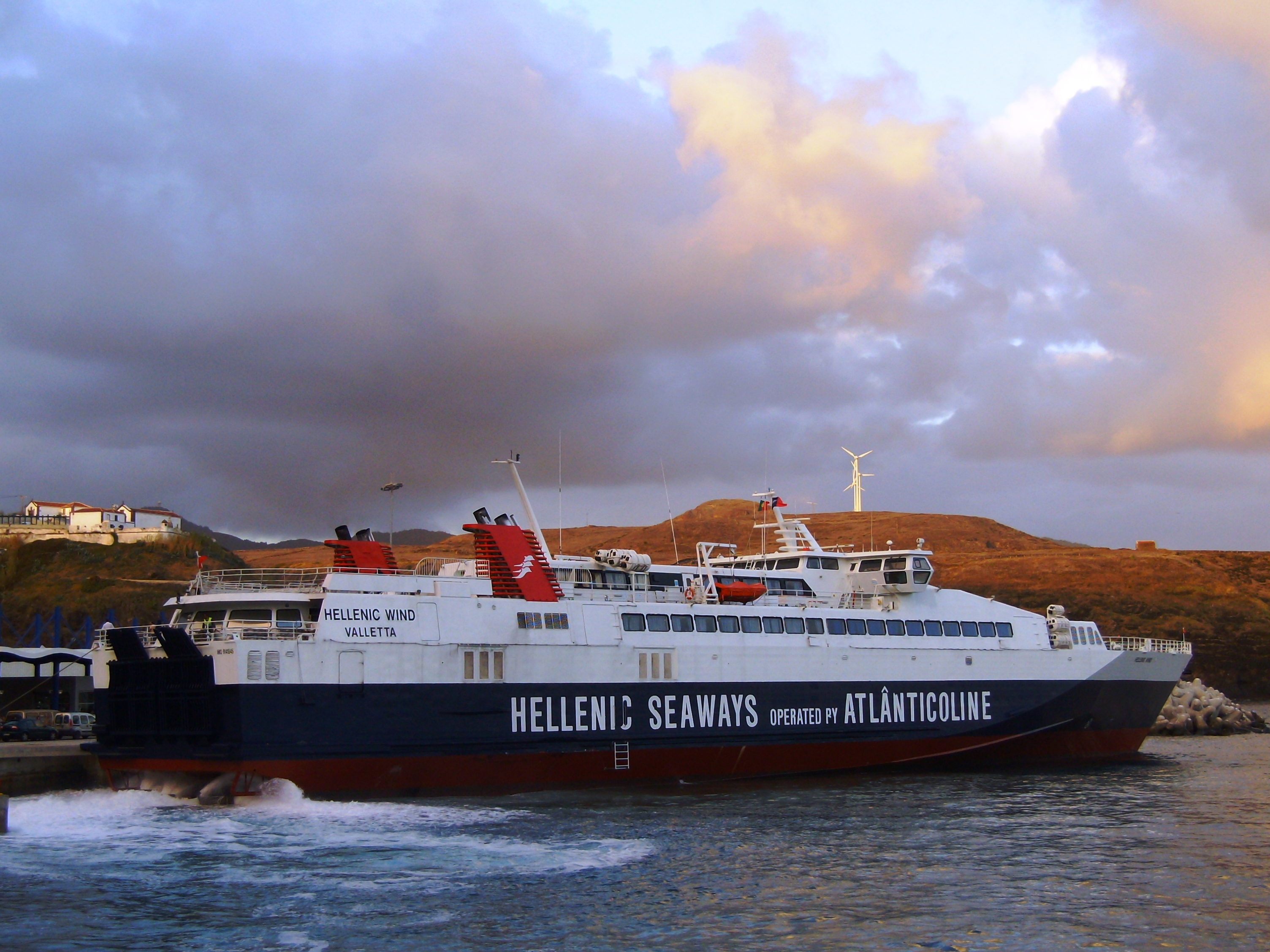 HSC Hellenic Wind in Vila do Porto harbour, Isle of Santa Maria, Azores.